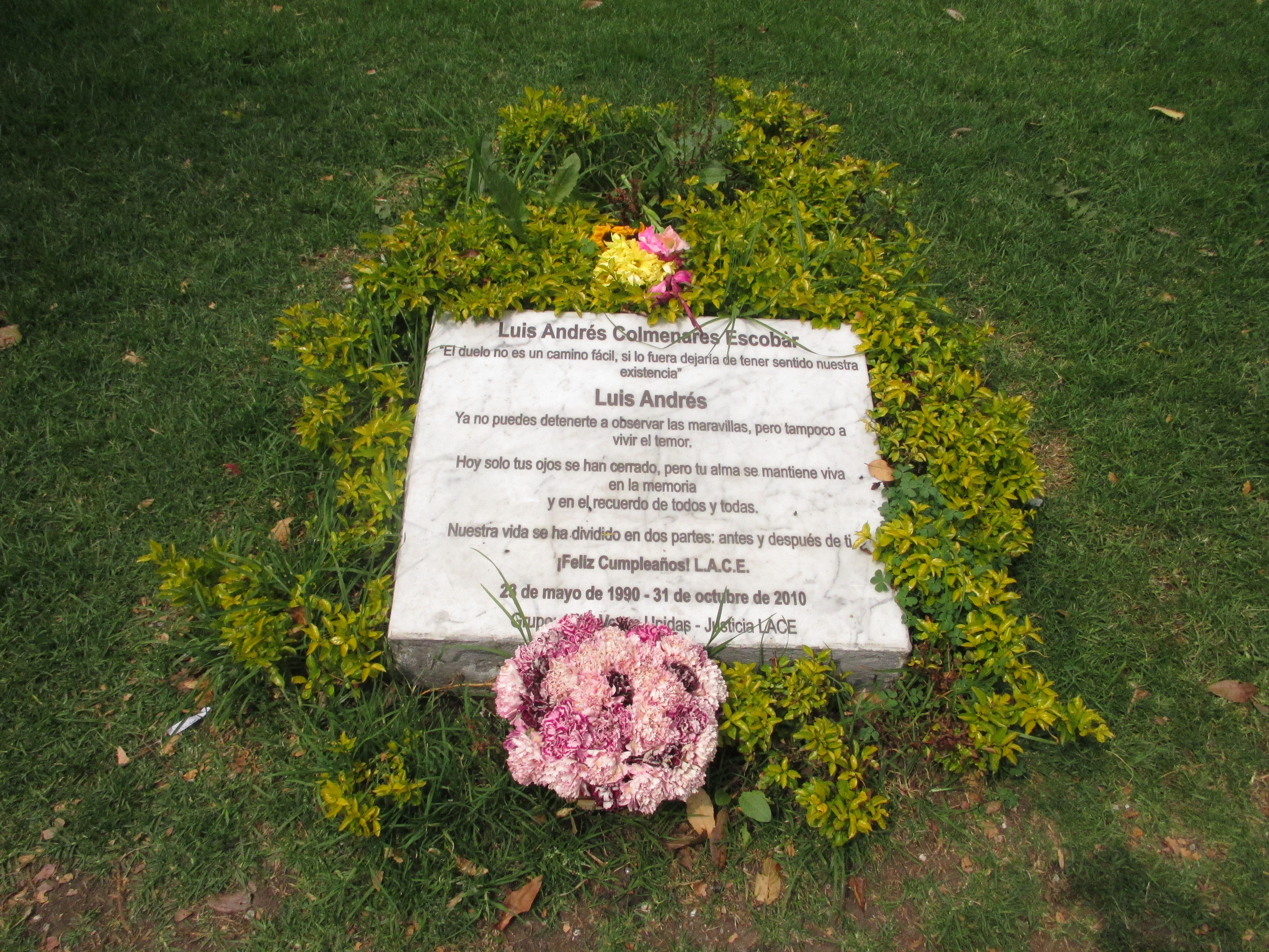 Bogotá, Colombia. Costado sur del canal del Virrey con carrera 15. Placa conmemorativa en honor a Luis Andrés Colmenares, que falleció en ese lugar el 31 de octubre de 2010.